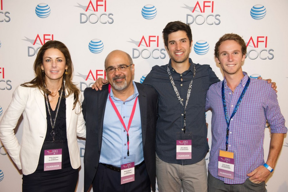 Salam Neighbor Team at AFI-DOCS - Syria refugee crisis camp